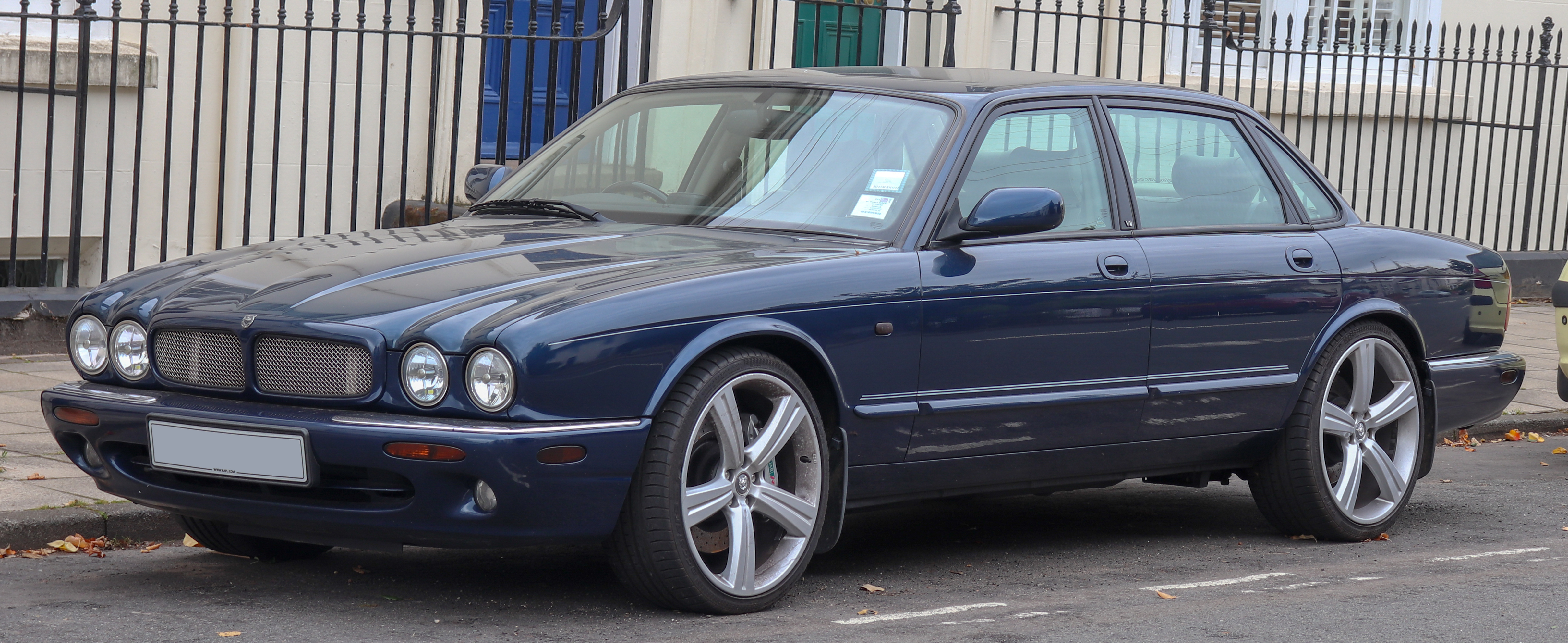 1998 Jaguar XJR V8 Automatic 4.0 Front Taken in Leamington Spa